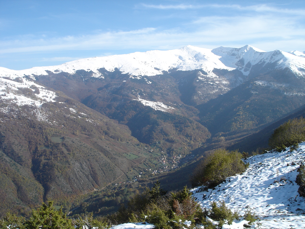 Village of Patishka Reka and mountain Karadzica, Macedonia